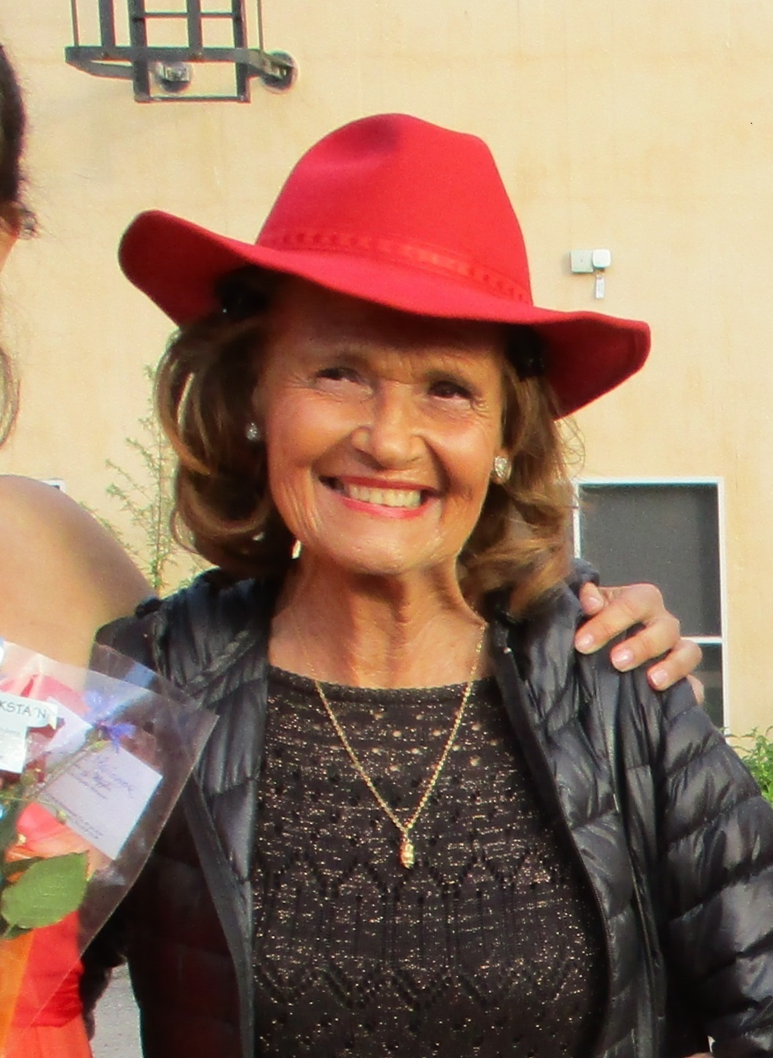 Swedish vocalist and voice coach Yvonne av Ugglas after an outdoor concert by DivinePlace: Galärparken, Stockholm, Sweden